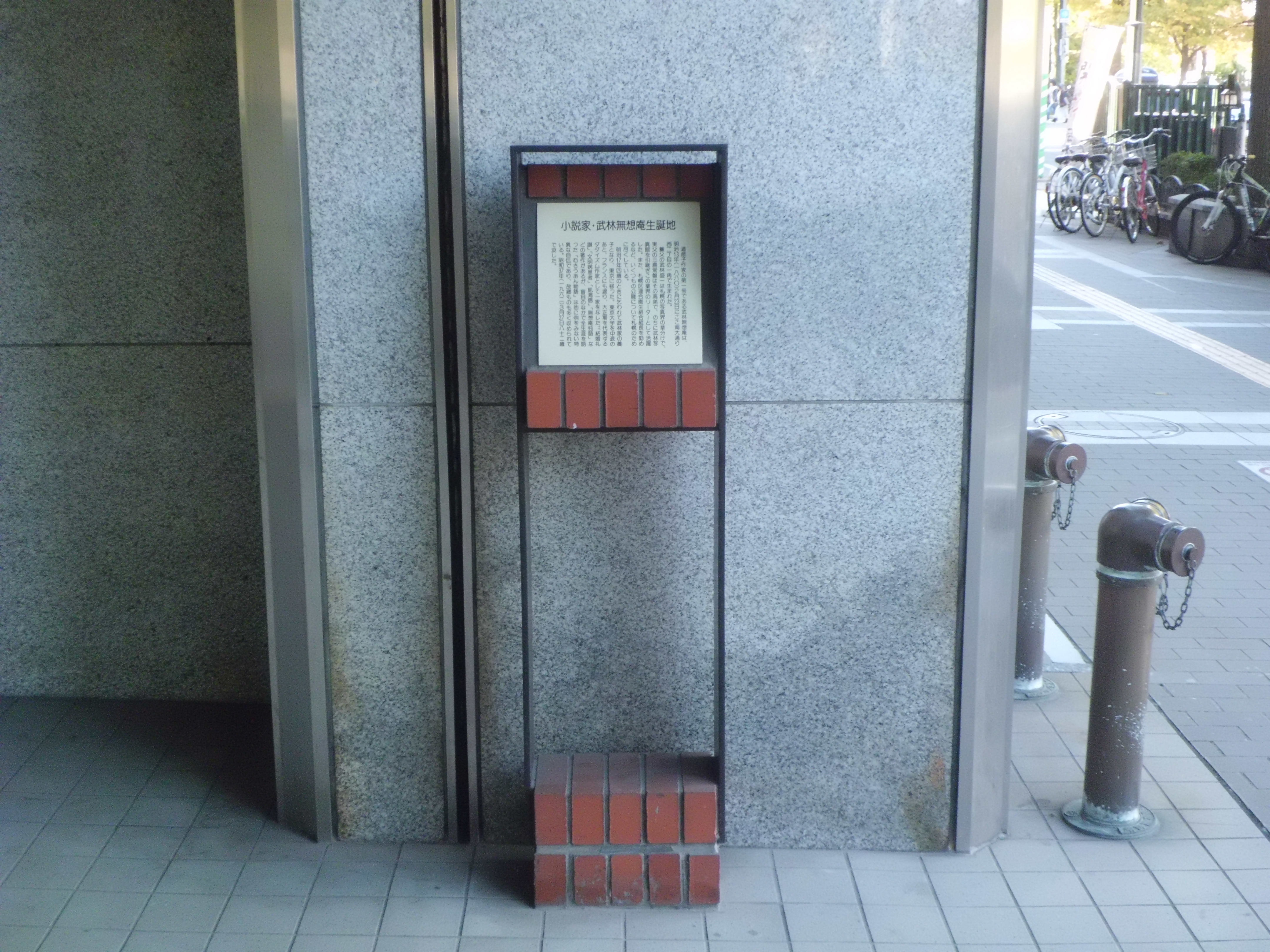 Birthplace of Musoan Takebayashi